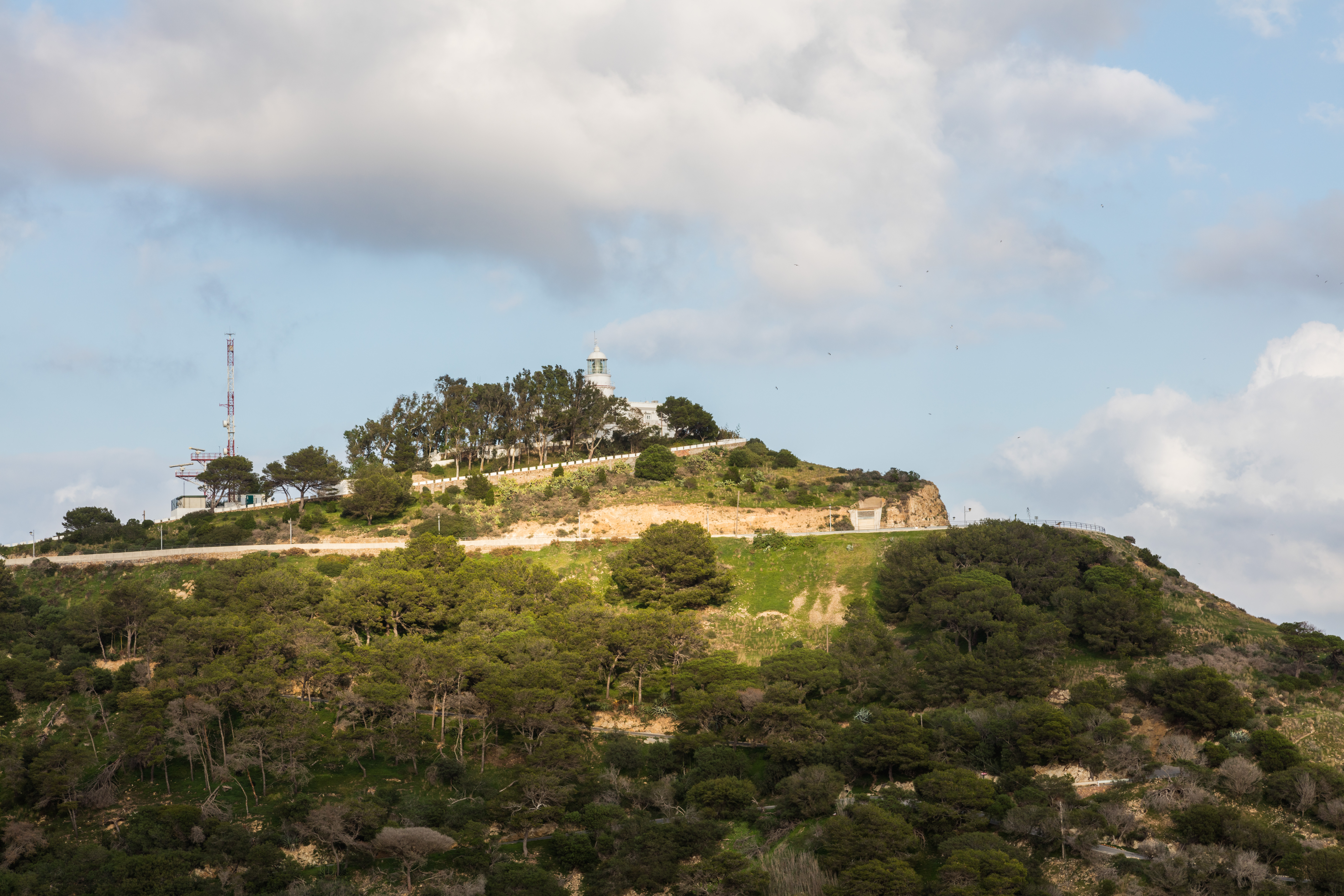 Lighthouse of Punta Almina, Ceuta, Spain